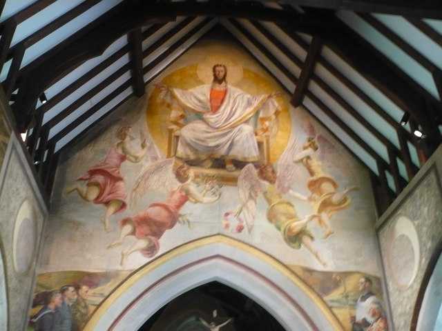 Mural over the chancel arch in the parish church of St Michael and All Angels, Berwick, Northumberland. Representing Christ in Glory, this mural by Duncan Grant, painted in 1941, shows Christ enthroned in heaven with angels worshipping. On the left are three World War II servicemen and on the right are Bishop Bell and the Rector of Berwick. The church is full of work by Duncan Grant, Vanessa Bell and her children Angelica and Quentin.